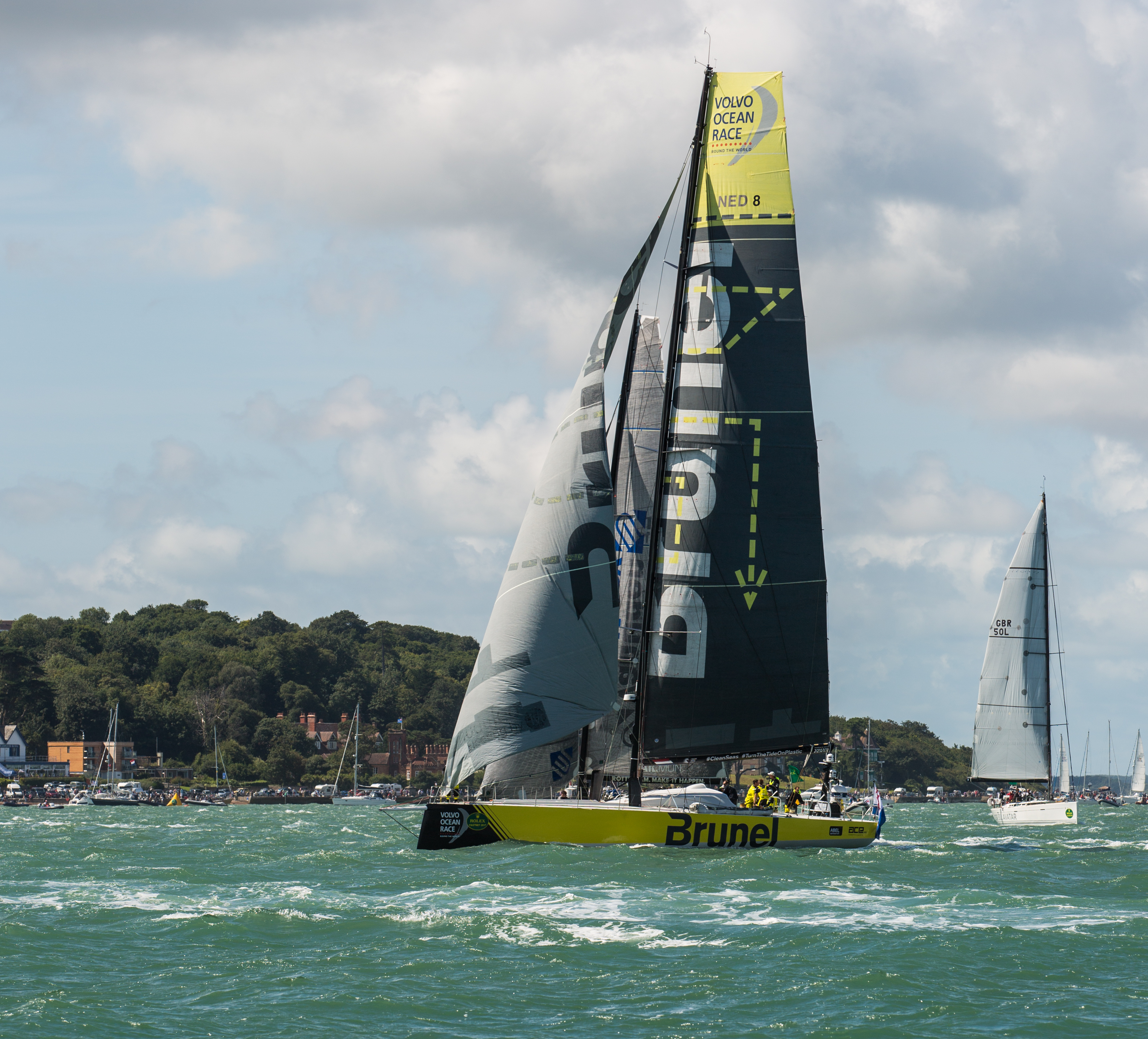 Fastnet weekend 2017-125 Yachts seen racing int he Solent off Cowes, Isle of Wight for the Fastnet 2017 race, held at the end of Cowes Week 2017. Team Brunel is in the foreground.